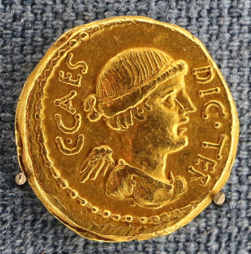 Ancient Roman coins in Palazzo Blu (Pisa)